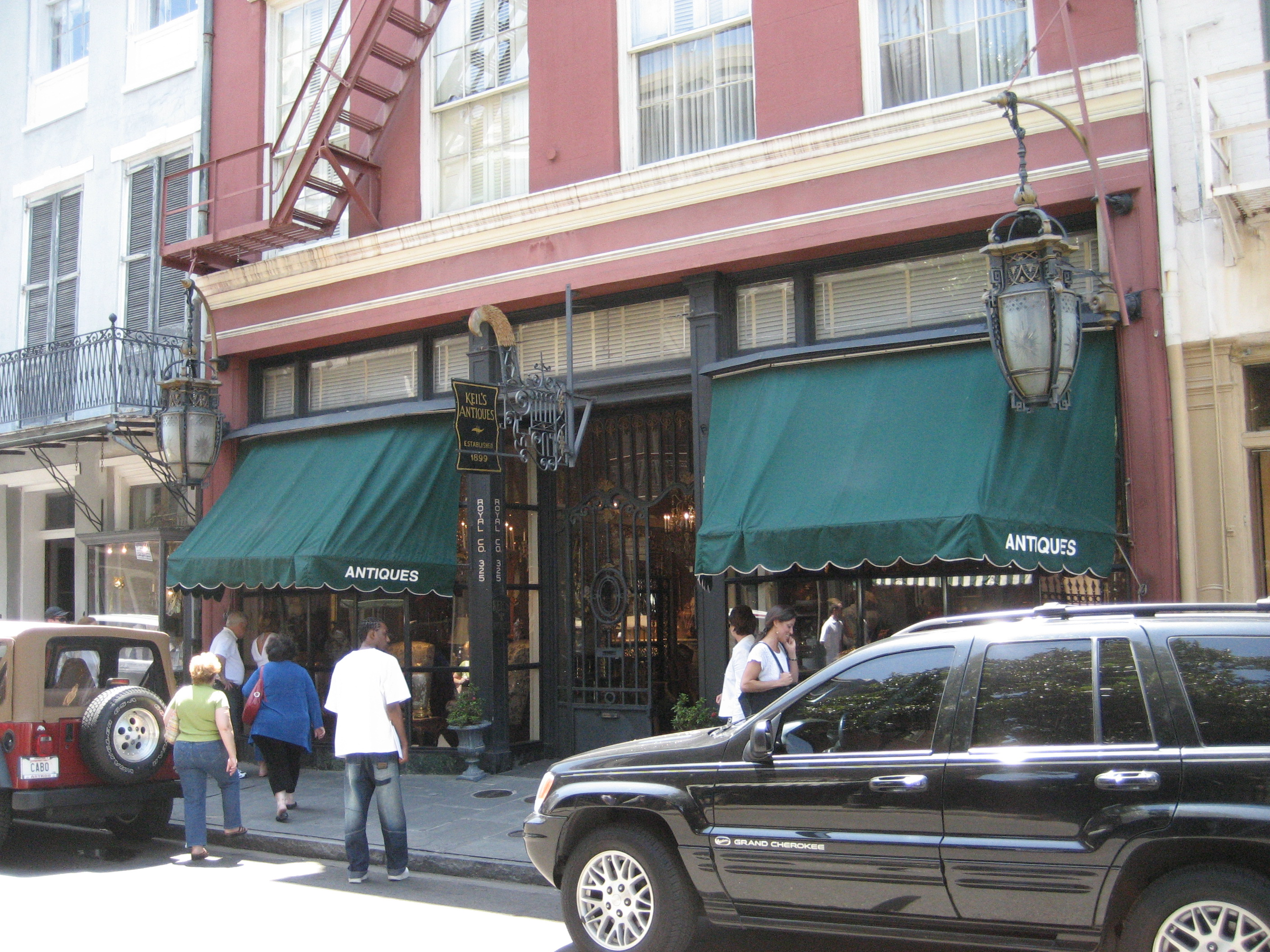 French Quarter, New Orleans: Antique store on Royal Street with elaborate old exterior lamps.